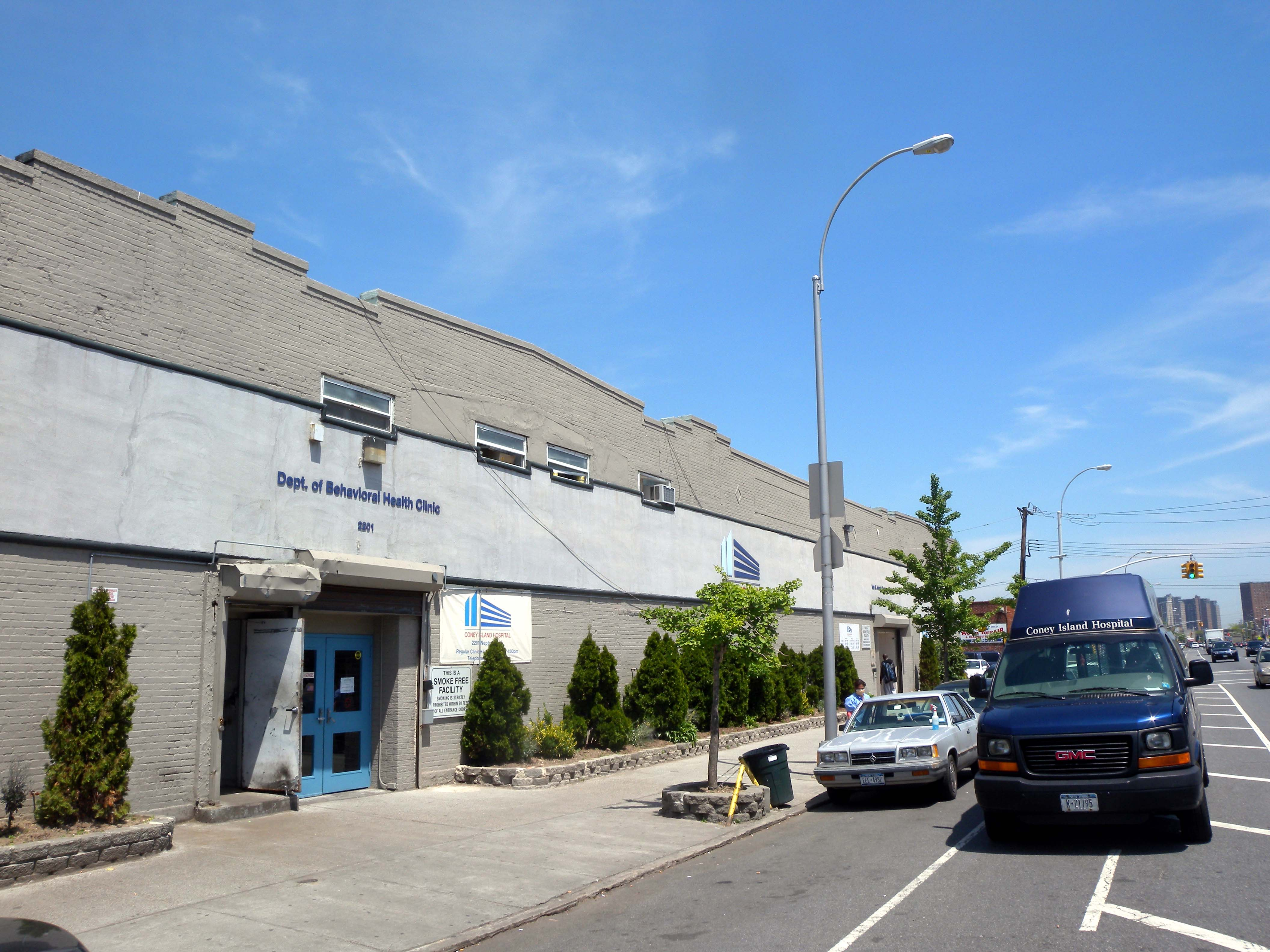 Looking northeast at 2201 Neptune Avenue, a department of Coney Island Hospital on a sunny midday.